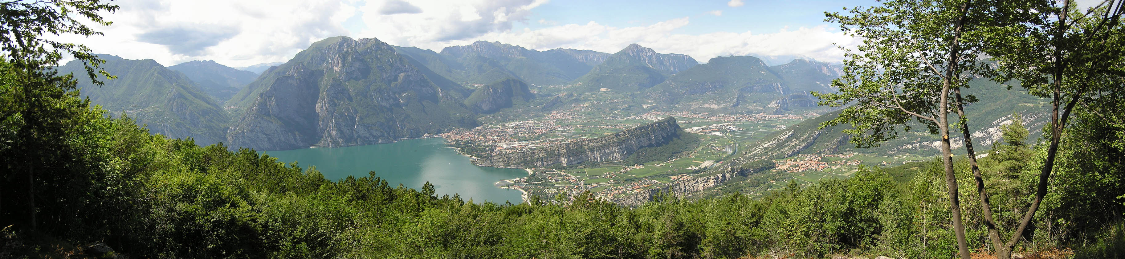 Lake Garda, view from Malga Casina, Italy